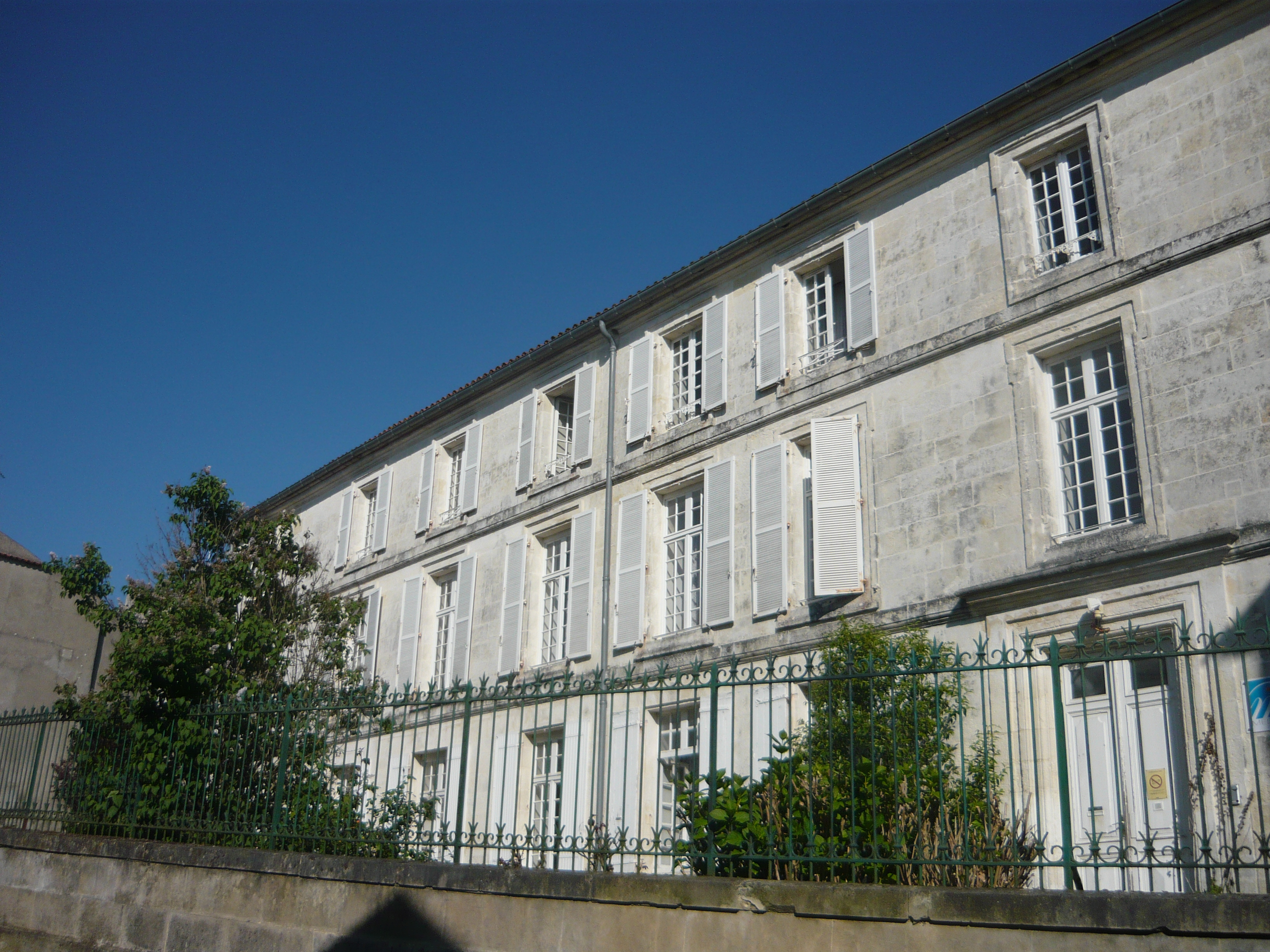 Résidence Marie d'Albret is a retirement home in Pons, Charente-Maritime, France. 4 rue du Président-Roosevelt.